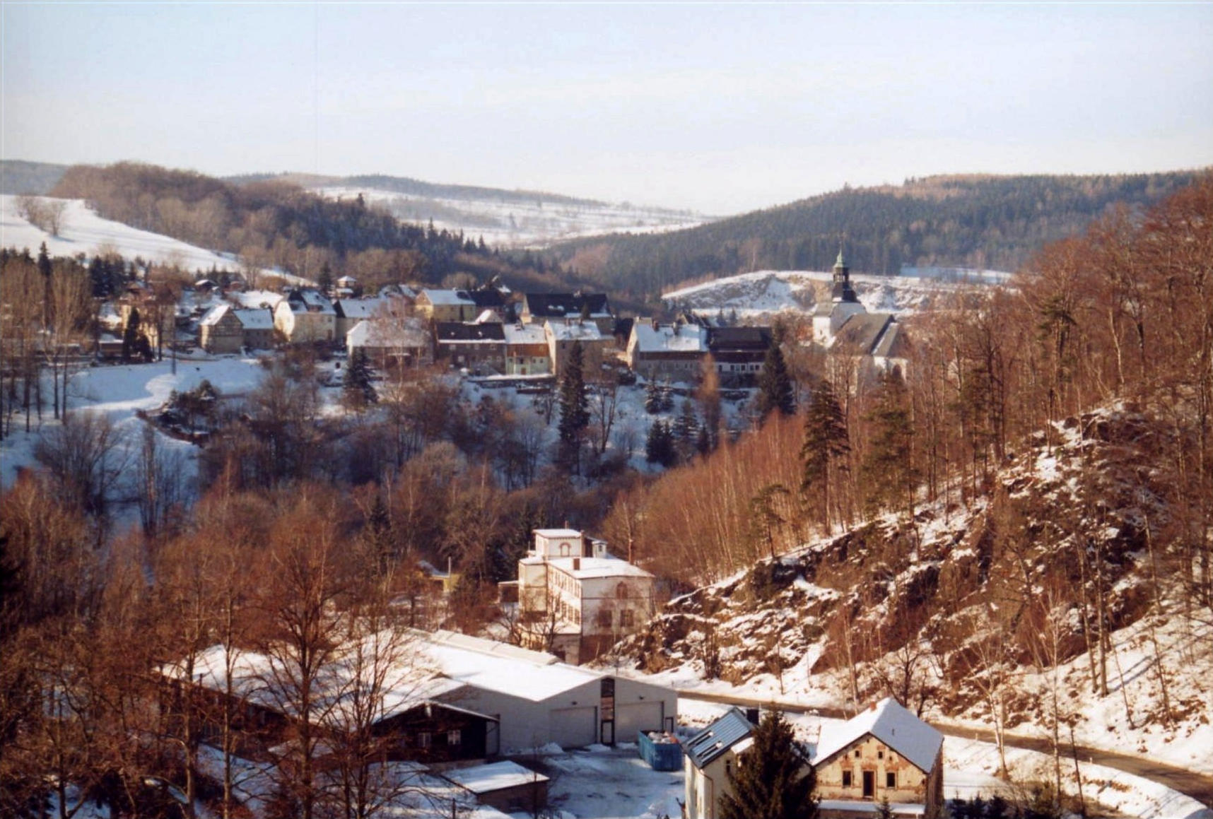 view on Lauenstein near Geising in Saxony.